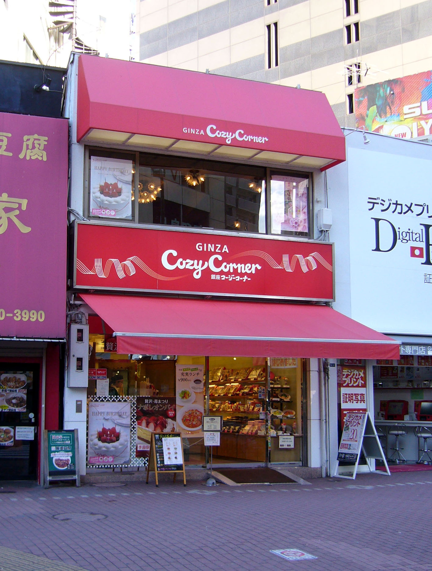 Ginza Cozy Corner (Japanese confectionery) at Gotanda, Tokyo